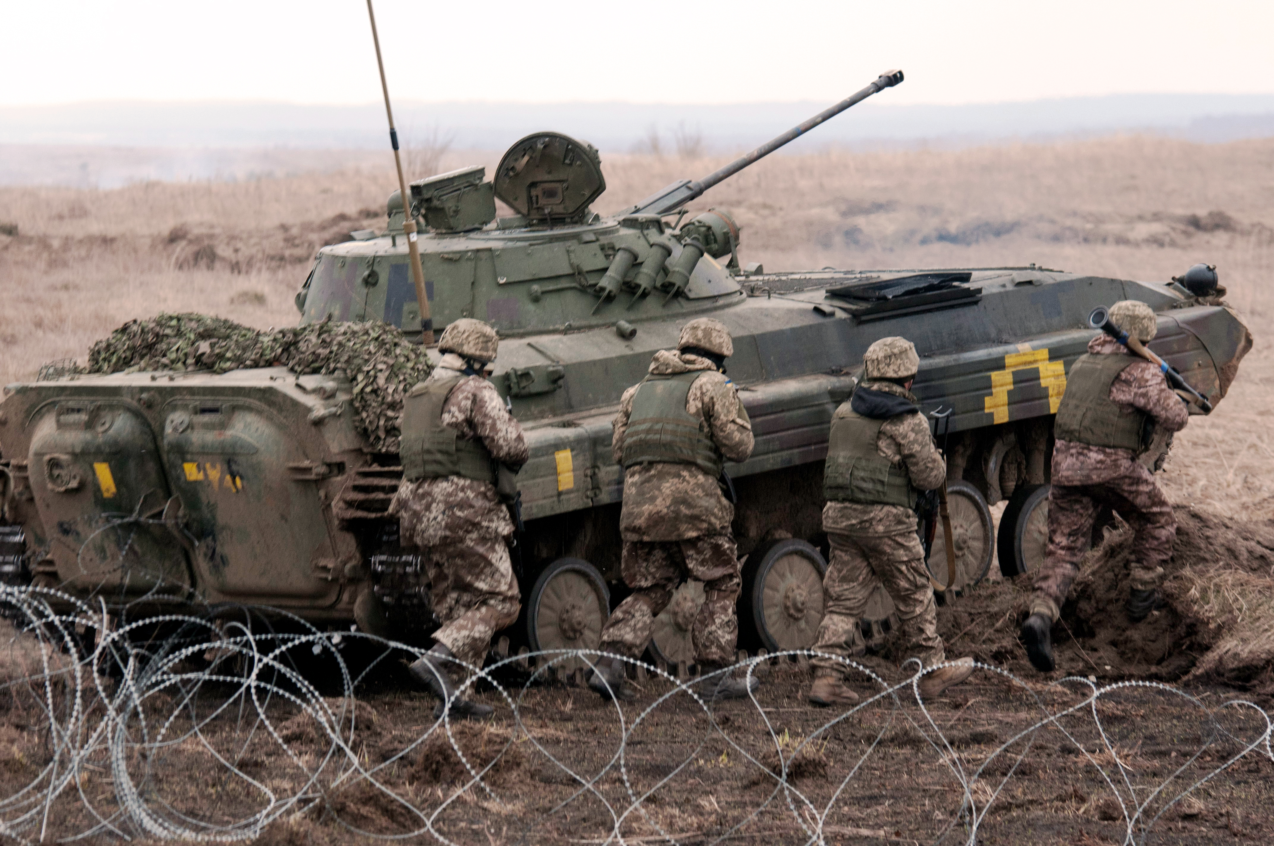 Ukrainian soldiers of the 1st Battalion, 28th Mechanized Infantry Brigade rush through a wire obstacle while taking cover behind their BMP-II armored vehicle during a live-fire training exercise at the Yavoriv Combat Training Center at the International Peackeeping and Security Center, near Yavoriv, Ukraine on March 16. The live-fire exercise is part of a block of instruction taught by Ukrainian combat training center staff, who are mentored by members of the Joint Multinational Training Group-Ukraine. JMTG-U is a coalition made up of servicemembers from the Canada, Denmark, Lithuania, Poland, the United Kingdom, the United States and Ukraine who are dedicated to developing the combat training center and building professionalism in the Ukrainian military. (Photo by Sgt. Anthony Jones, 45th Infantry Brigade Combat Team)